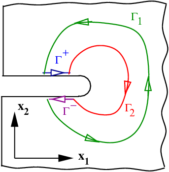 Paths around a crack for proof of path independence of J integral.